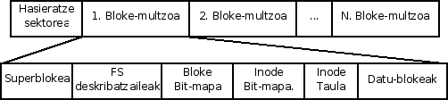 Physical structure of the ext3 filesystem